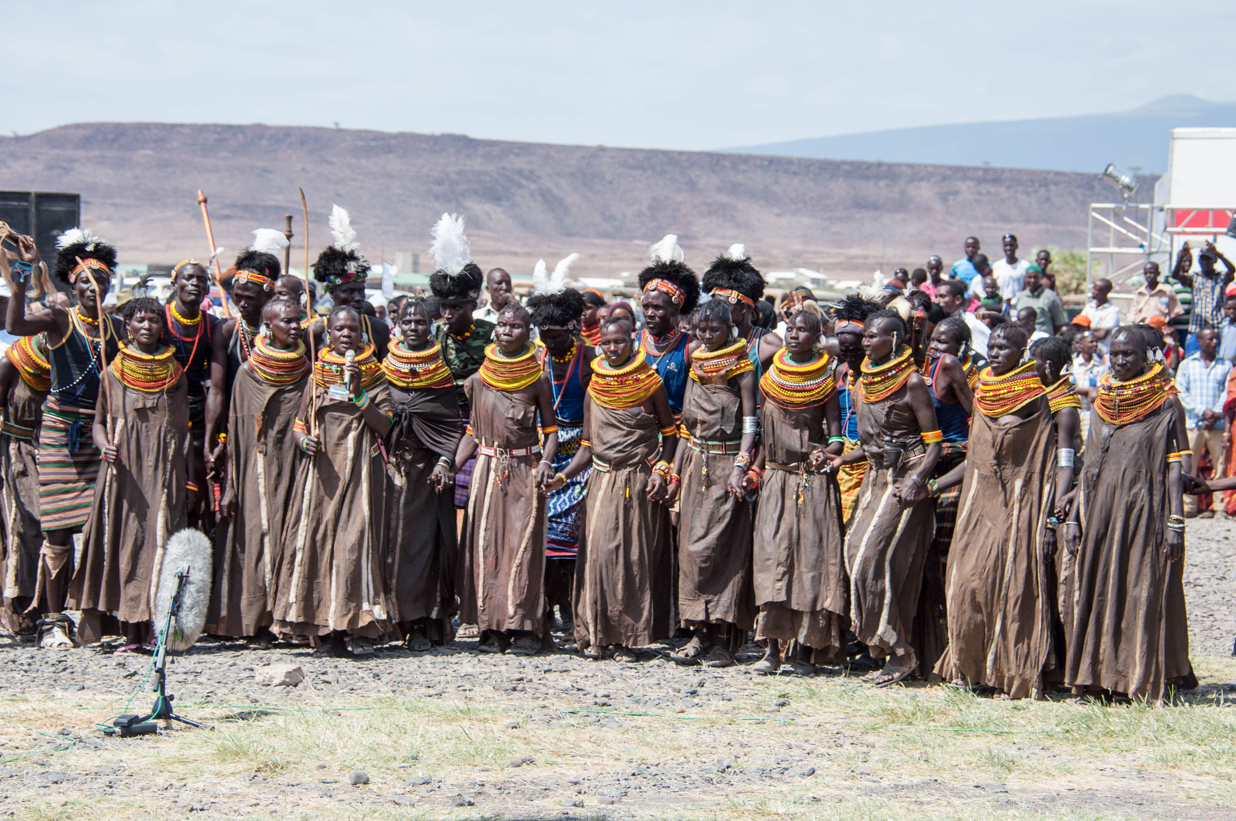 Turkana cultural Festival, Kenya 2016 This is an image of music and dance from Kenya